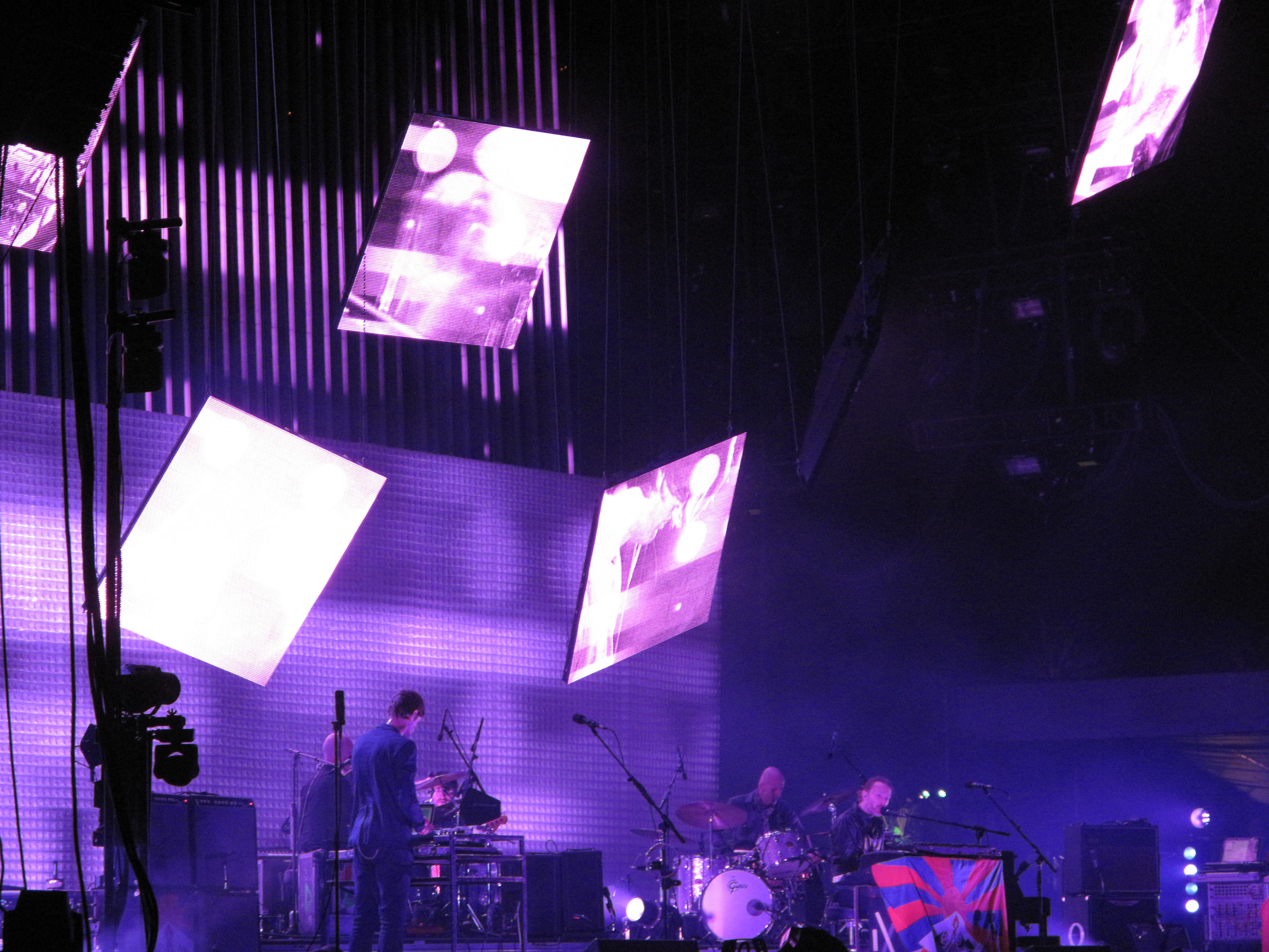 Radiohead